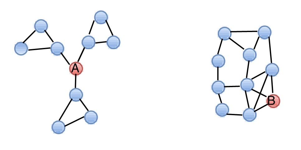 Thr imsge depicts two type of networks - with redundant and nonredundant connections